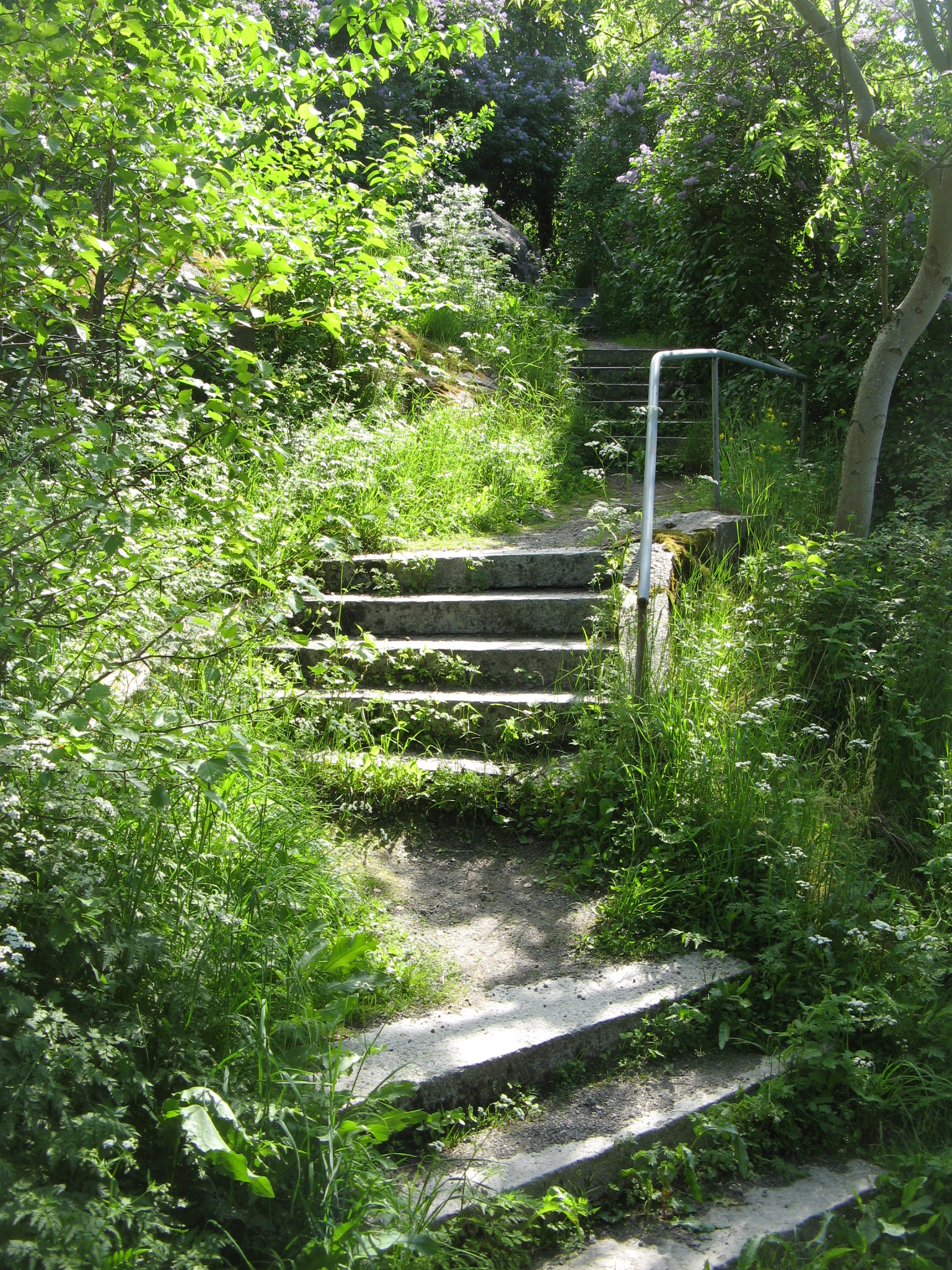 Stairs in Vartiovuorenpuisto, Turku